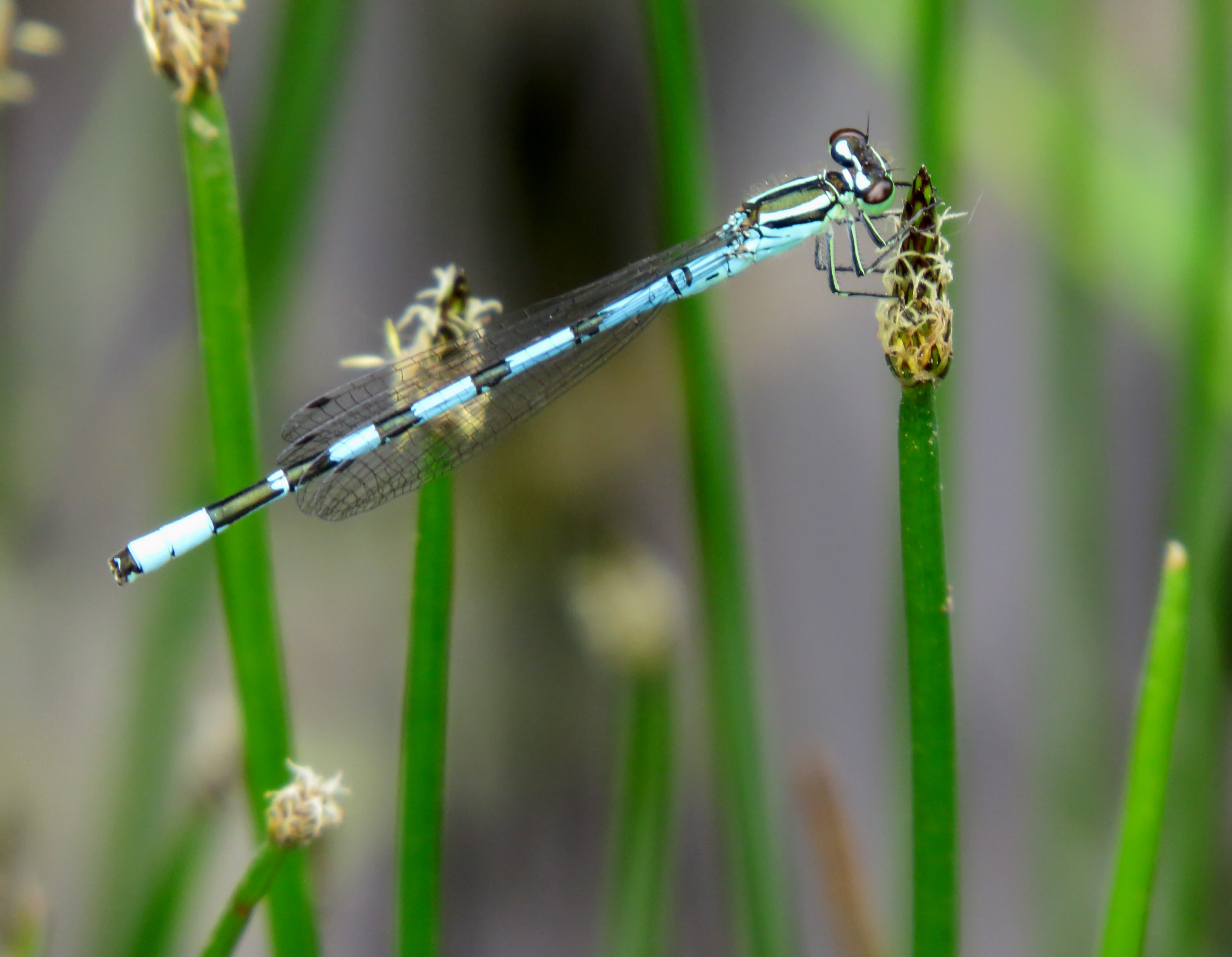 Coenagrion hastulatum in Stetsenko street, Kiev, Ukraine